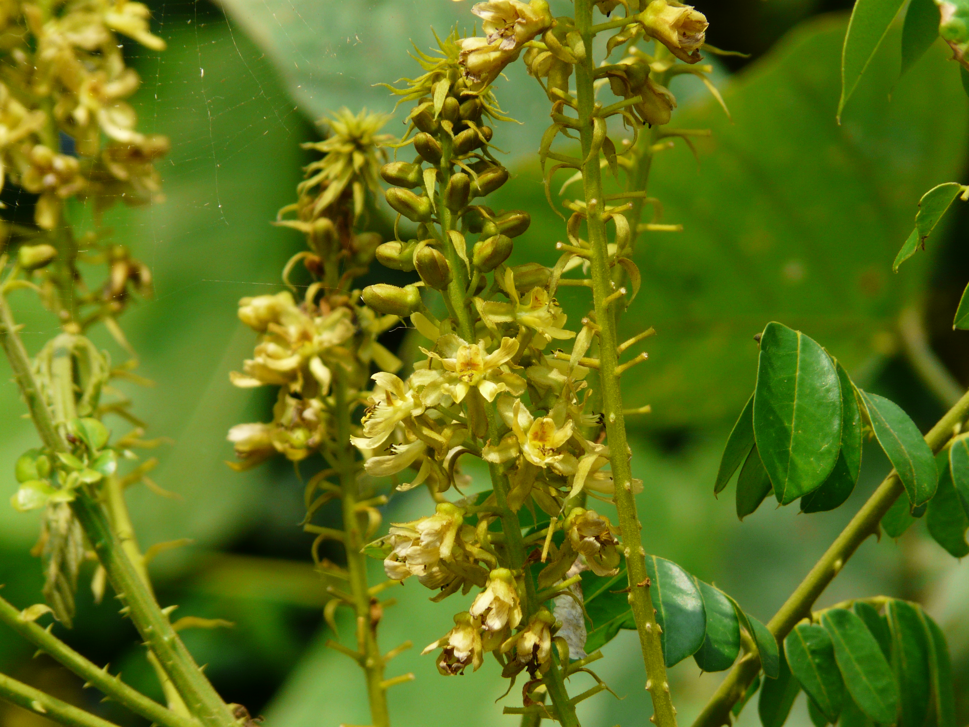 Caesalpiniaceae » Caesalpinia bonduc ses-al-PIN-ee-uh -- named for Andreas Caesalpini, Italian botanist BOND-ook -- derived from Arabic word for hazelnut, referring to hazelnut like seeds commonly known as: bonduc nut, febrifuge nut, fever nut, molucca bean, nicker nut, sea pearl • Assamese: লেটাগুটি letaguti • Bengali: নাটাকরঞ্জ natakaranja •